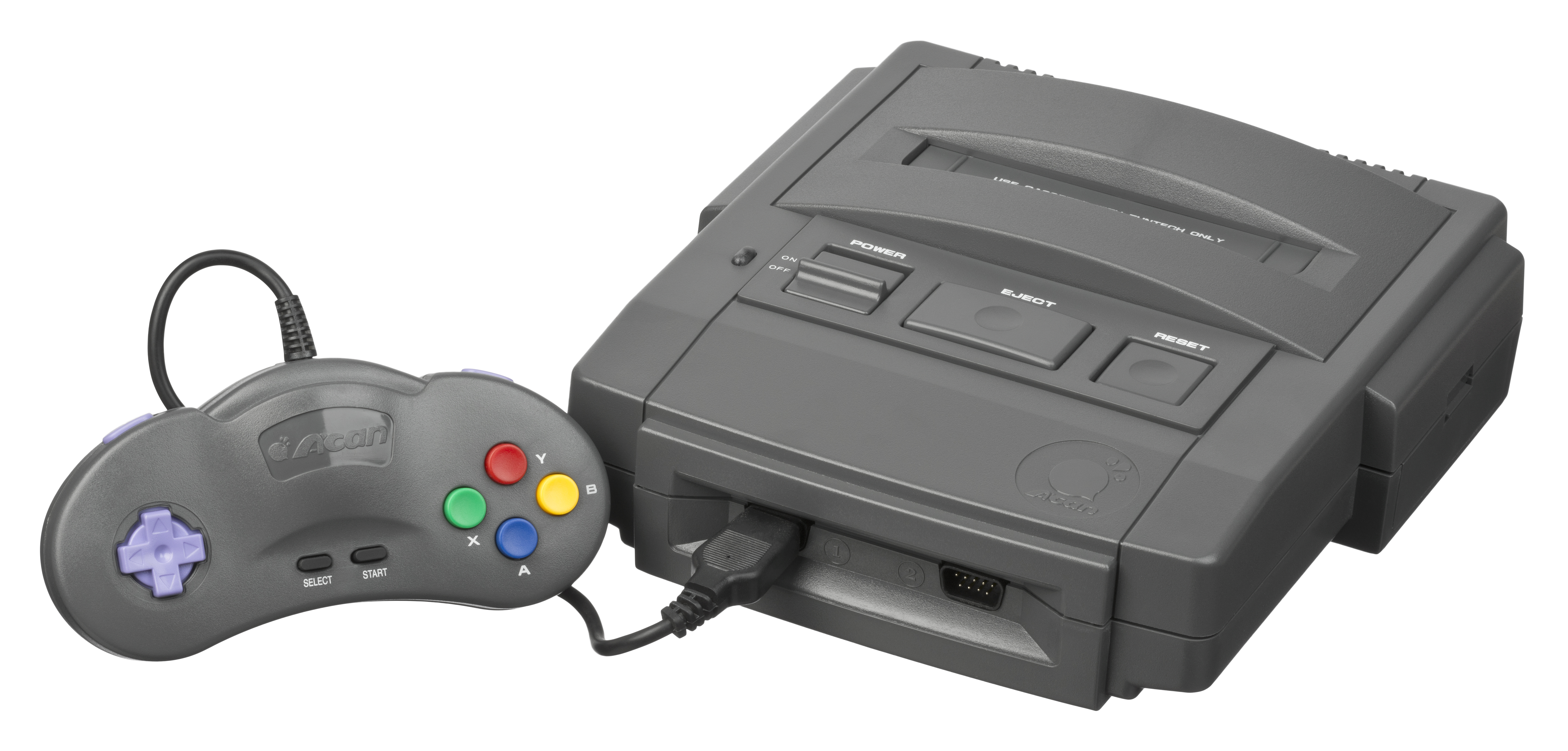 The Super A'can, a fourth generation video game console, shown with controller. Released by Funtech in 1995 for its native country Taiwan, the Super A'can was an unsuccessful system with very few games released for it. Its styling is reminiscent of the Super Nintendo/Famicom, though its Motorola 68000-based system architecture is more comparable to the Sega Genesis.